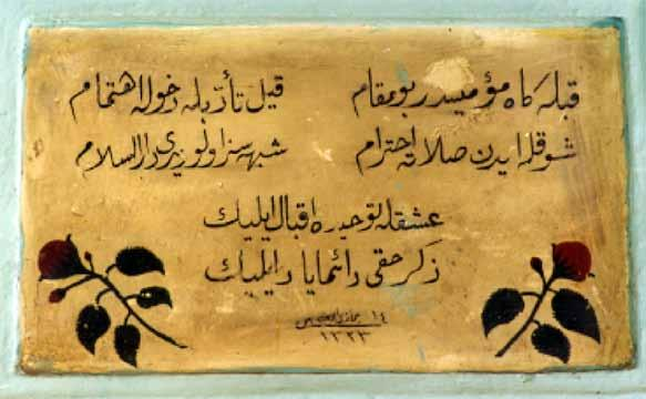 Hatunije Mosque Inscription